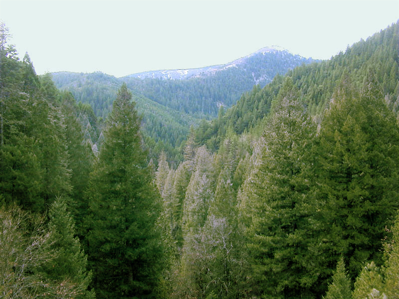 Conifer forest in the Sieera Nevada, near Downieville, California.